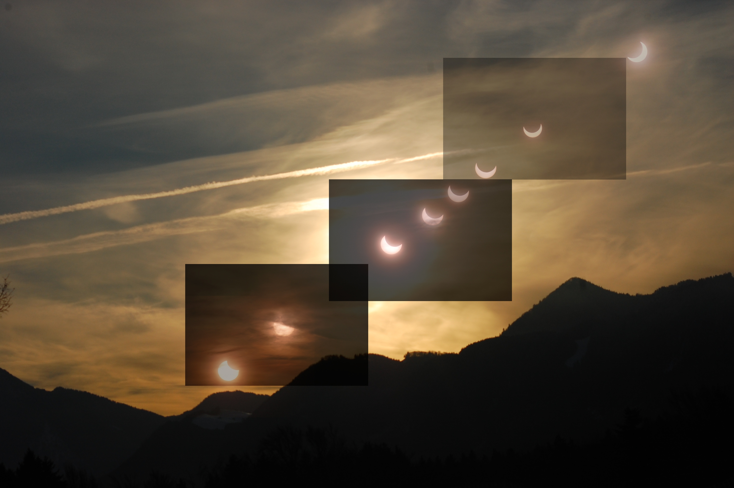 Partial Solar Eclipse in South Germany - Hittenkirchen Chiemsee - 4th January 2011 Picture is composed of several individual images